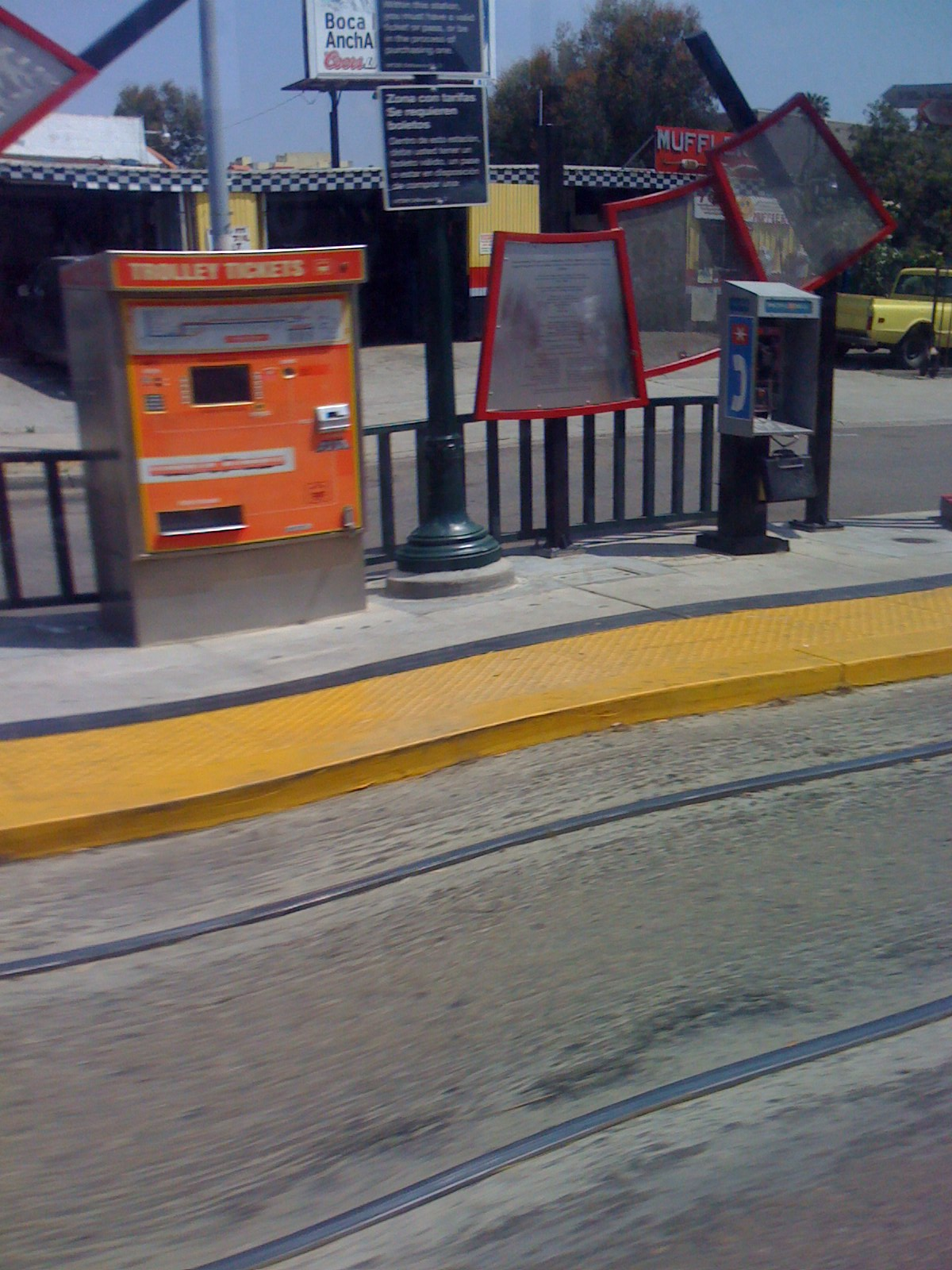 San Diego Trolley Station